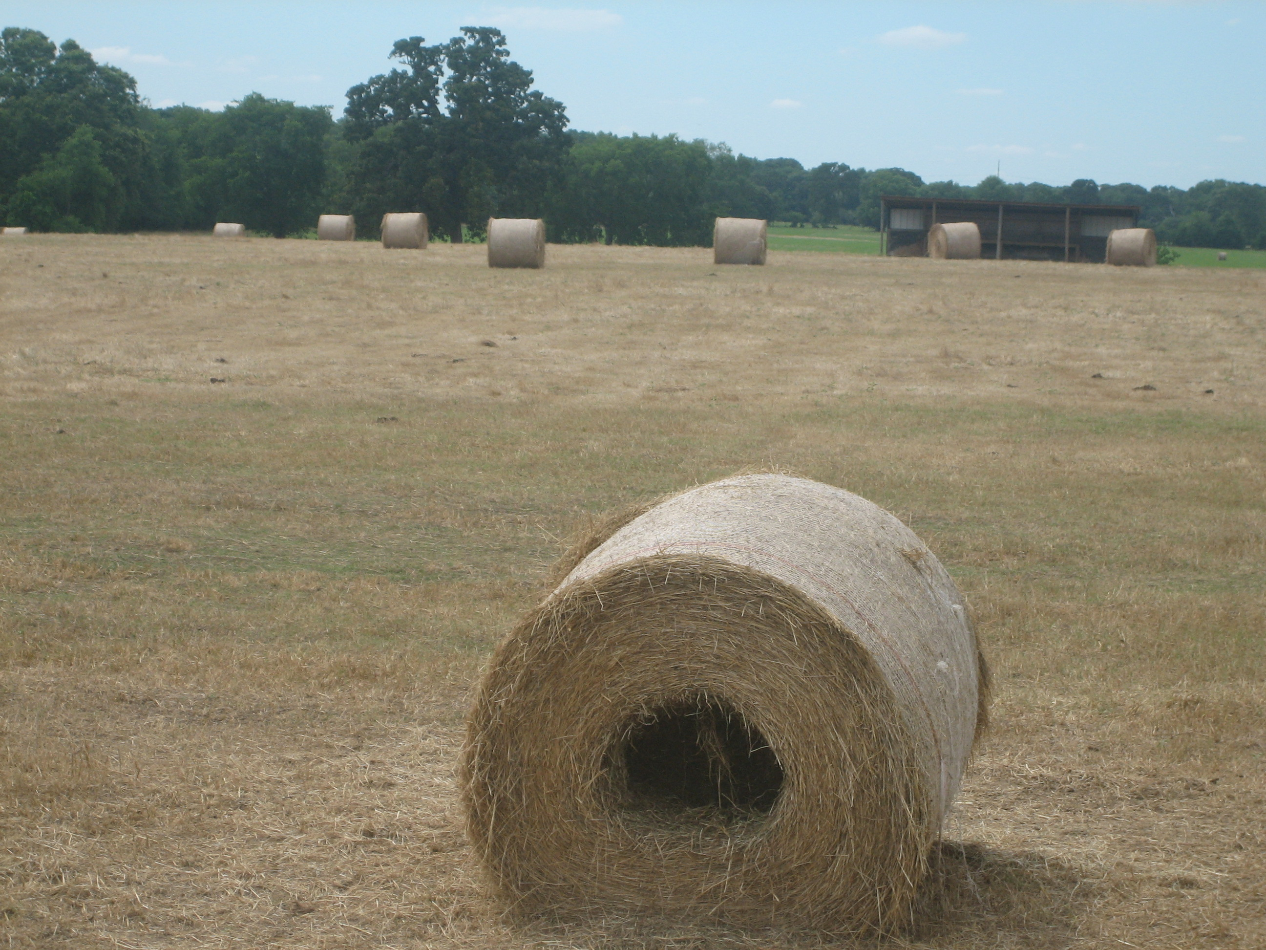 I took photo on May 27, 2009.